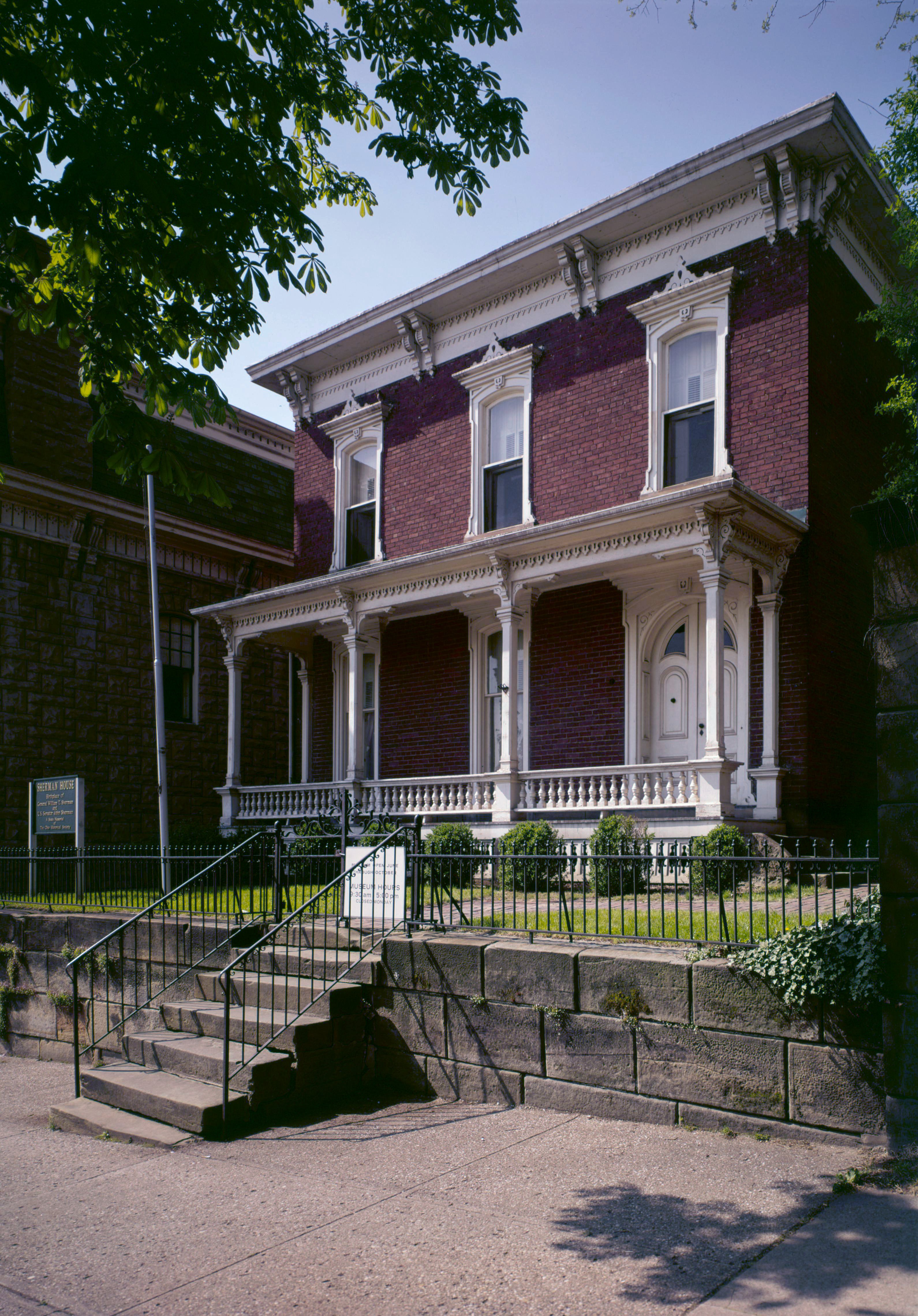 Front of the John Sherman Birthplace, located at 137 E. Main Street in Lancaster, Ohio, United States. Built in 1811, it has been declared a National Historic Landmark.